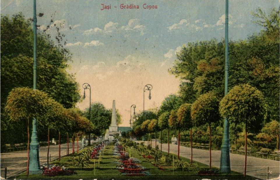 Copou Park, Iași, România